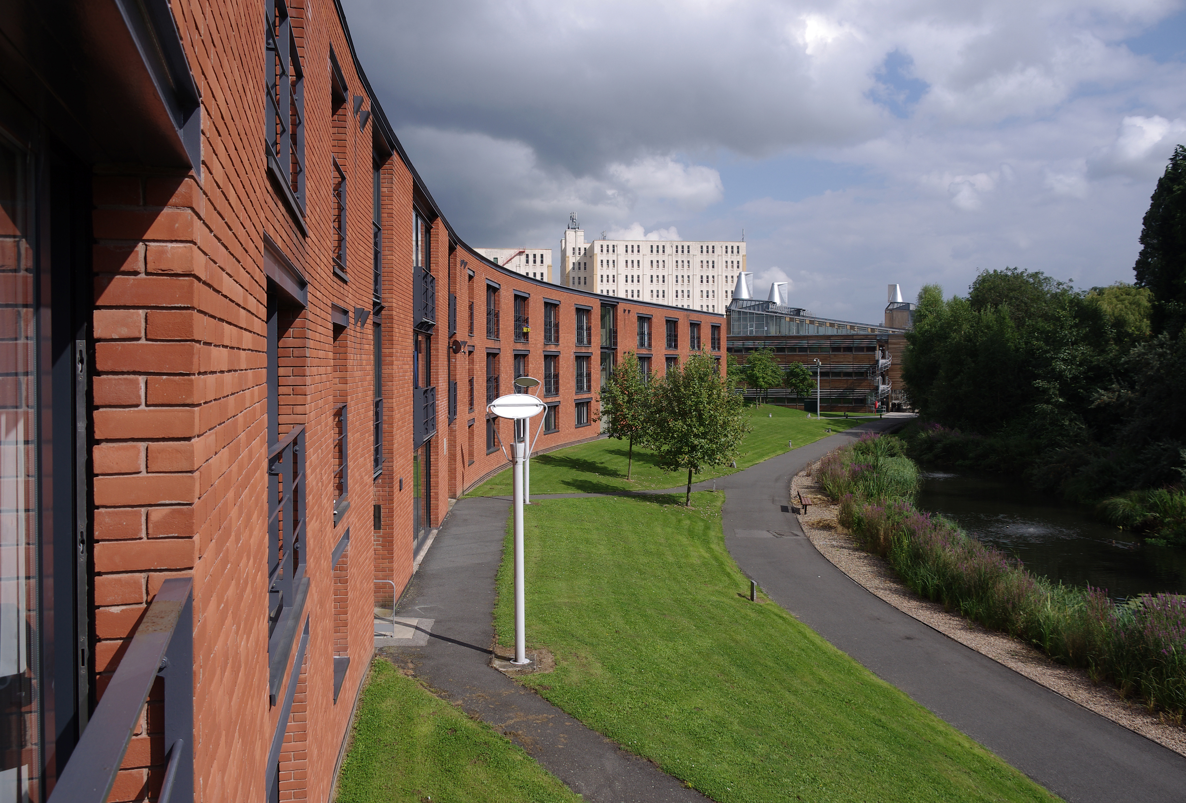 View from Melton Hall on Jubilee Campus.